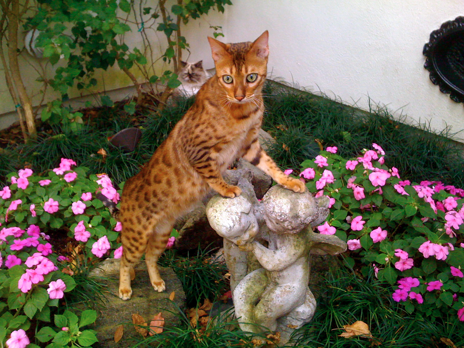 Bengal cat named Bangie.